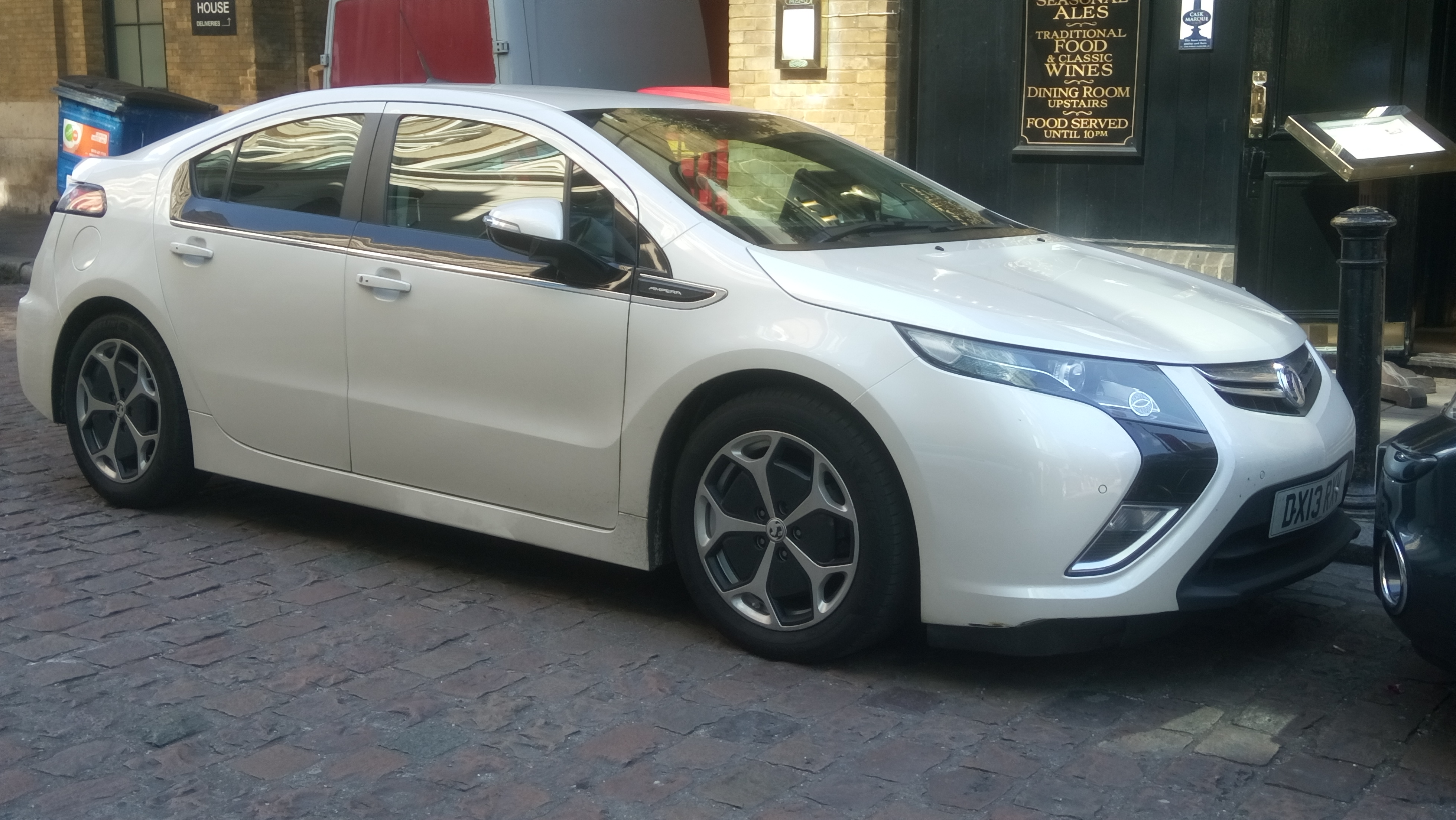 A white Vauxhall Ampera in London,United Kingdom